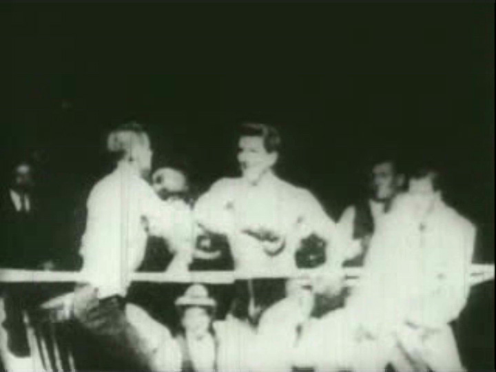 Screencap from the short film Corbett and Courtney Before the Kinetograph